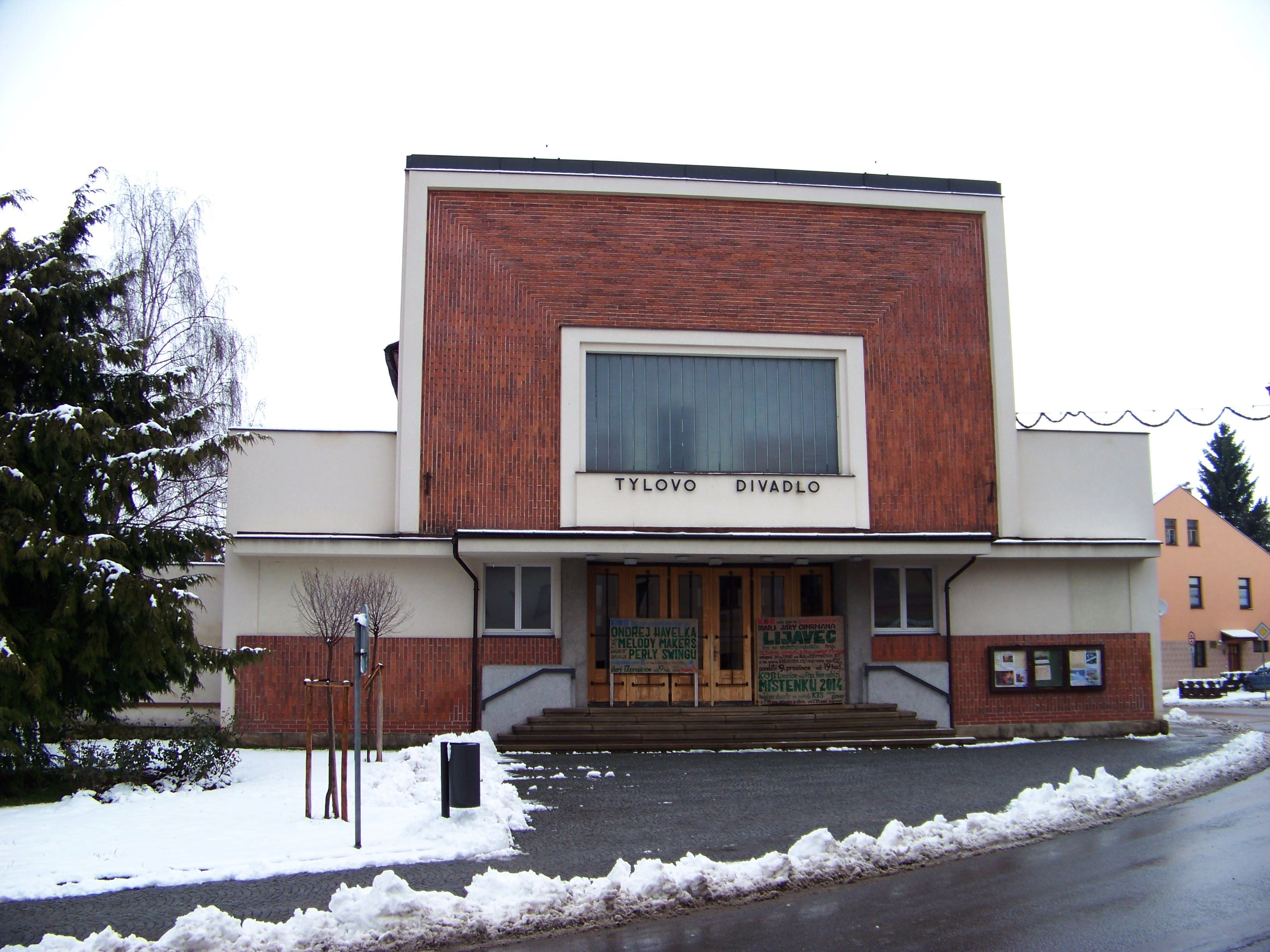 Lomnice nad Popelkou, Semily District, Liberec Region, Czech Republic. Plk. Truhláře 2, Tyl Theatre.